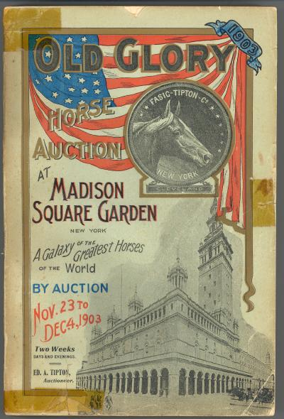 1903 Old Glory catalogue